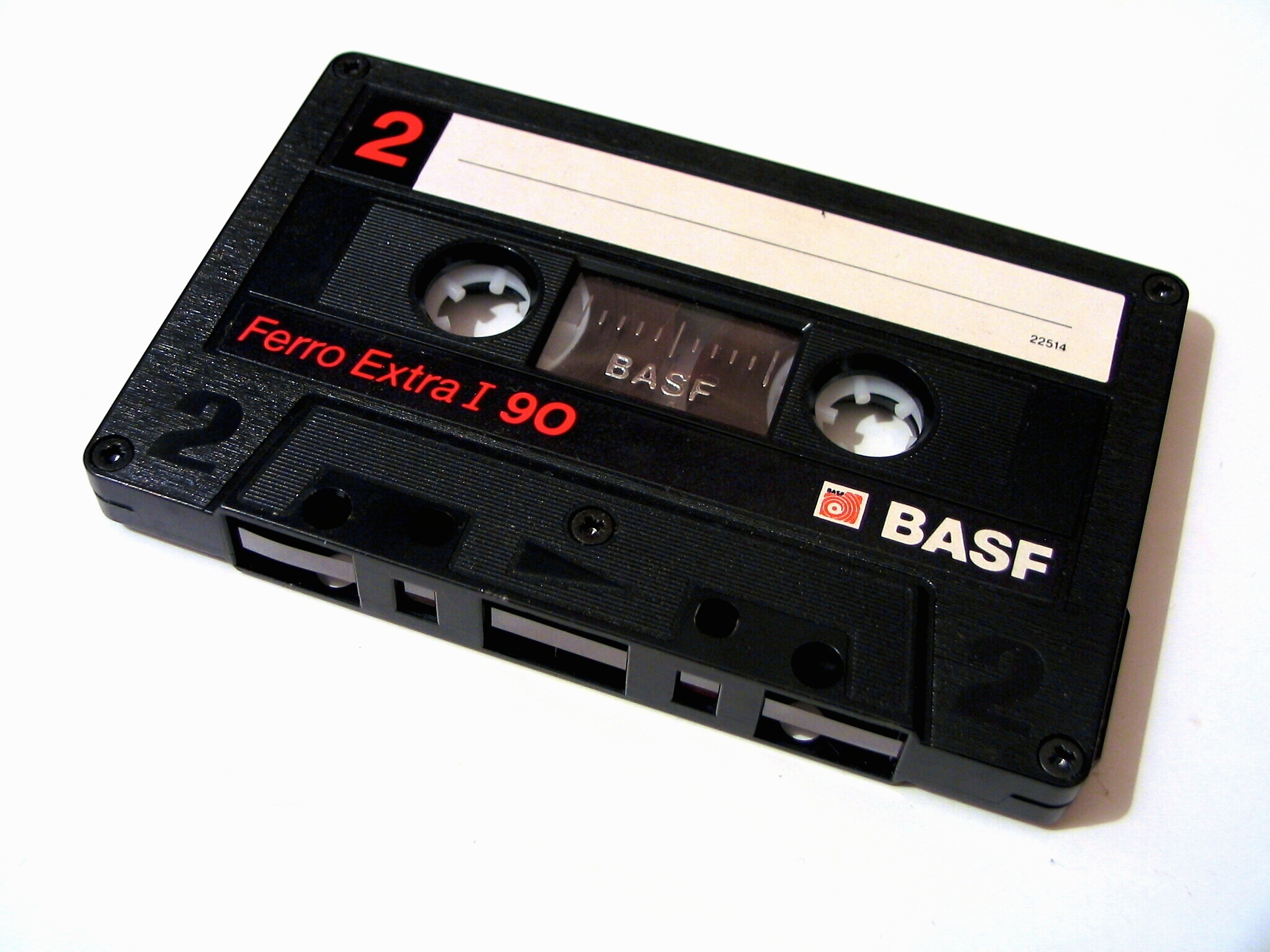 BASF Audiocasette